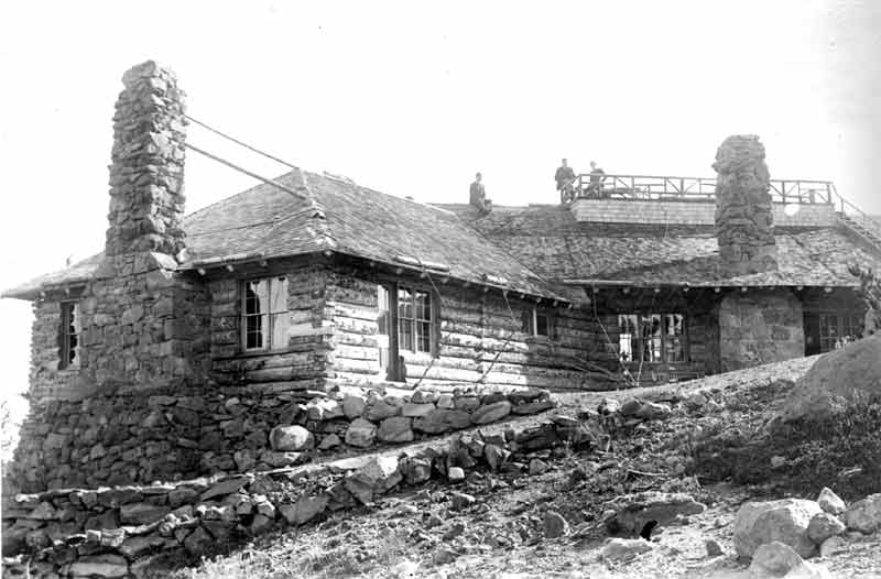 The Cloud Cap Inn not long after construction in 1889, Mount Hood National Forest, Oregon, United States. The inn is listed on the US National Register of Historic Places, and is identified as a contributing resource in the National Register-listed Cloud Cap-Tilly Jane Recreation Area Historic District.